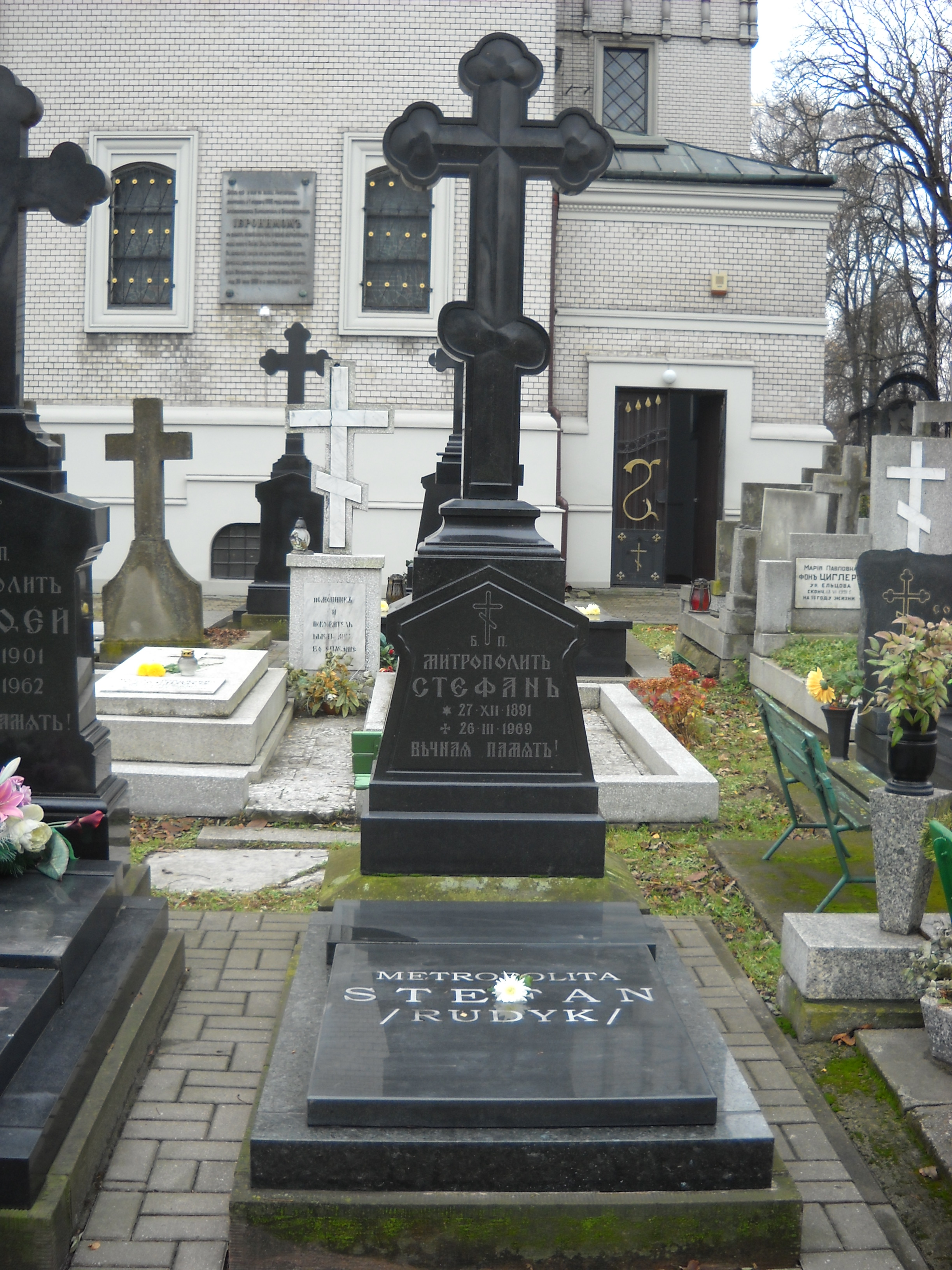 Grave of Stephen (Rudyk), Orthodox metropolitan of Warsaw and all Poland